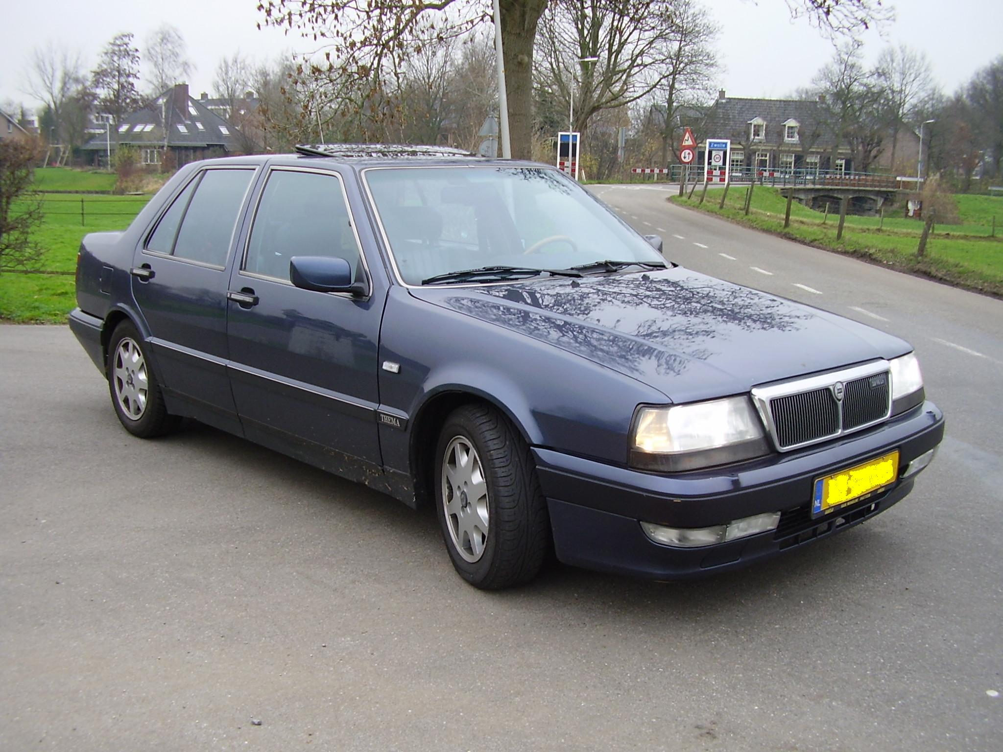 Lancia Thema 3.0 V6